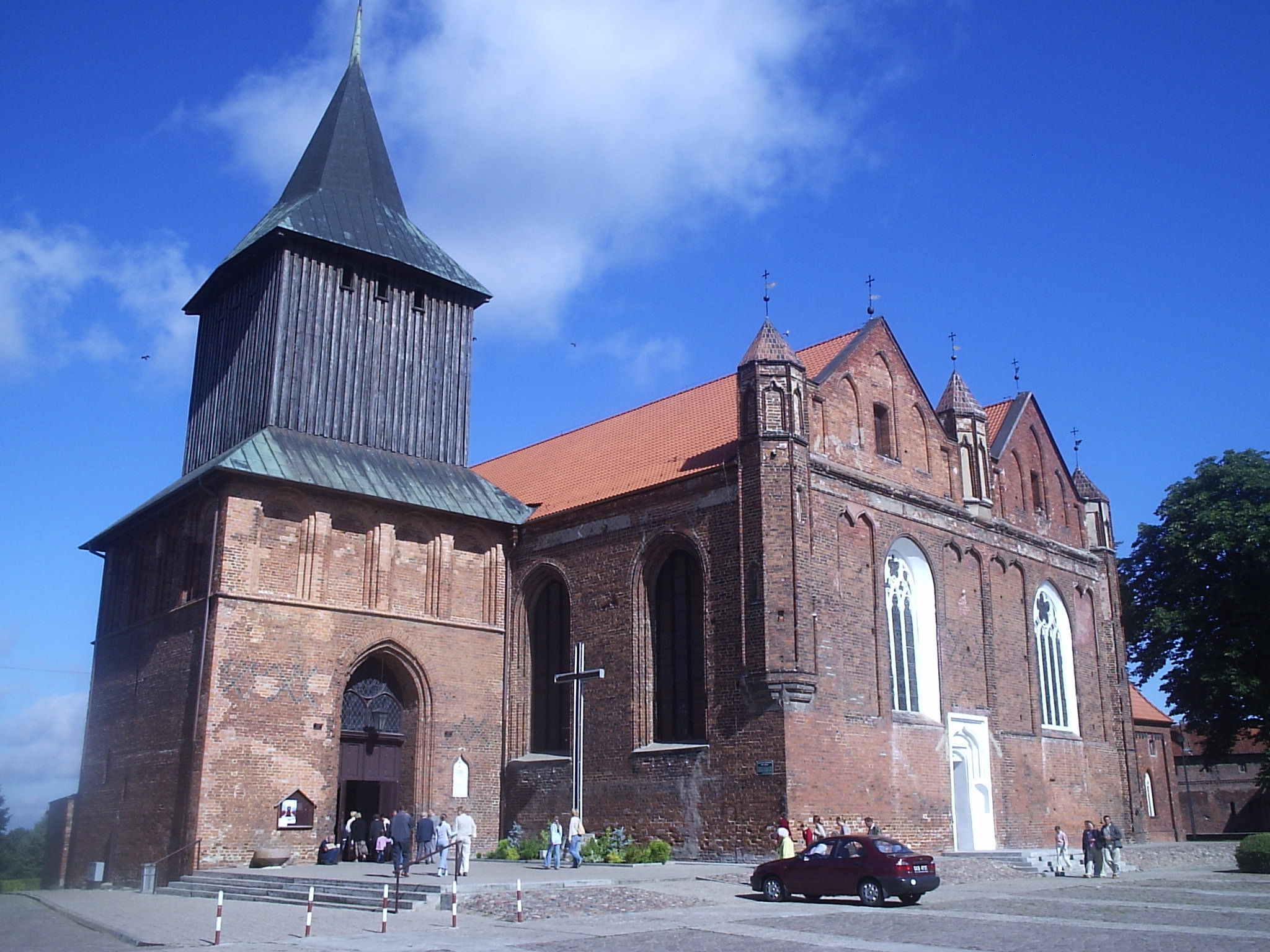 Gothic Church in Malbork (Poland).